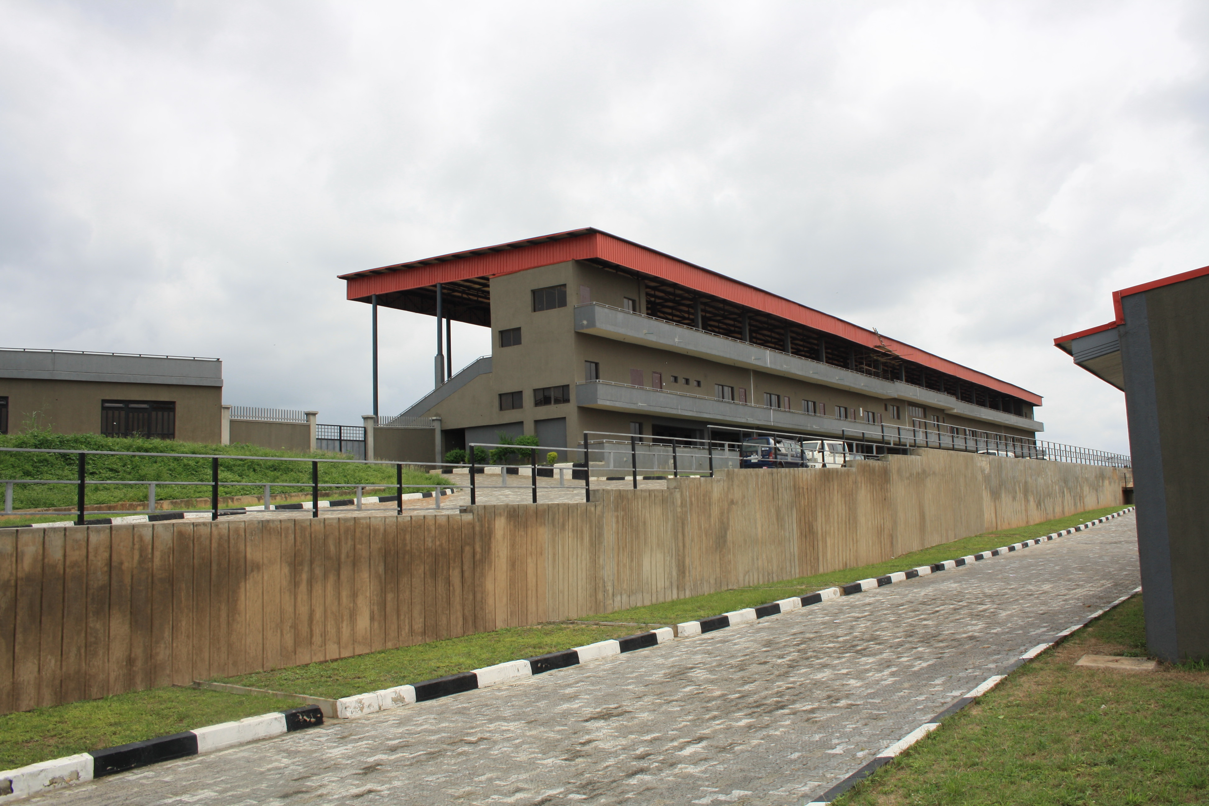 Osogbo sity stadium